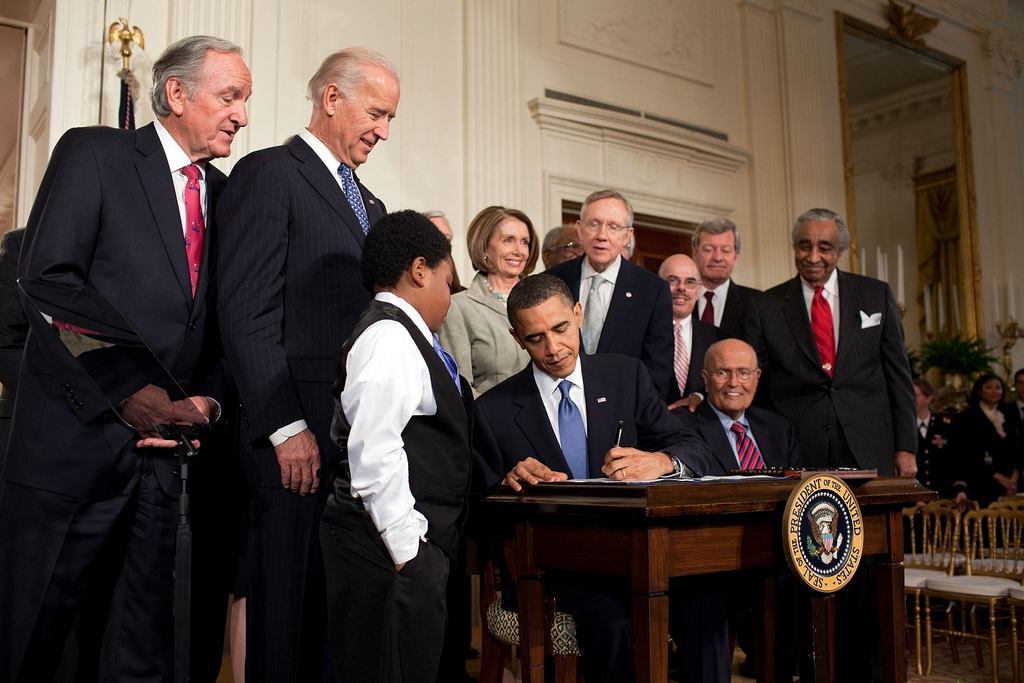 Barack Obama signing the Patient Protection and Affordable Care Act at the White House